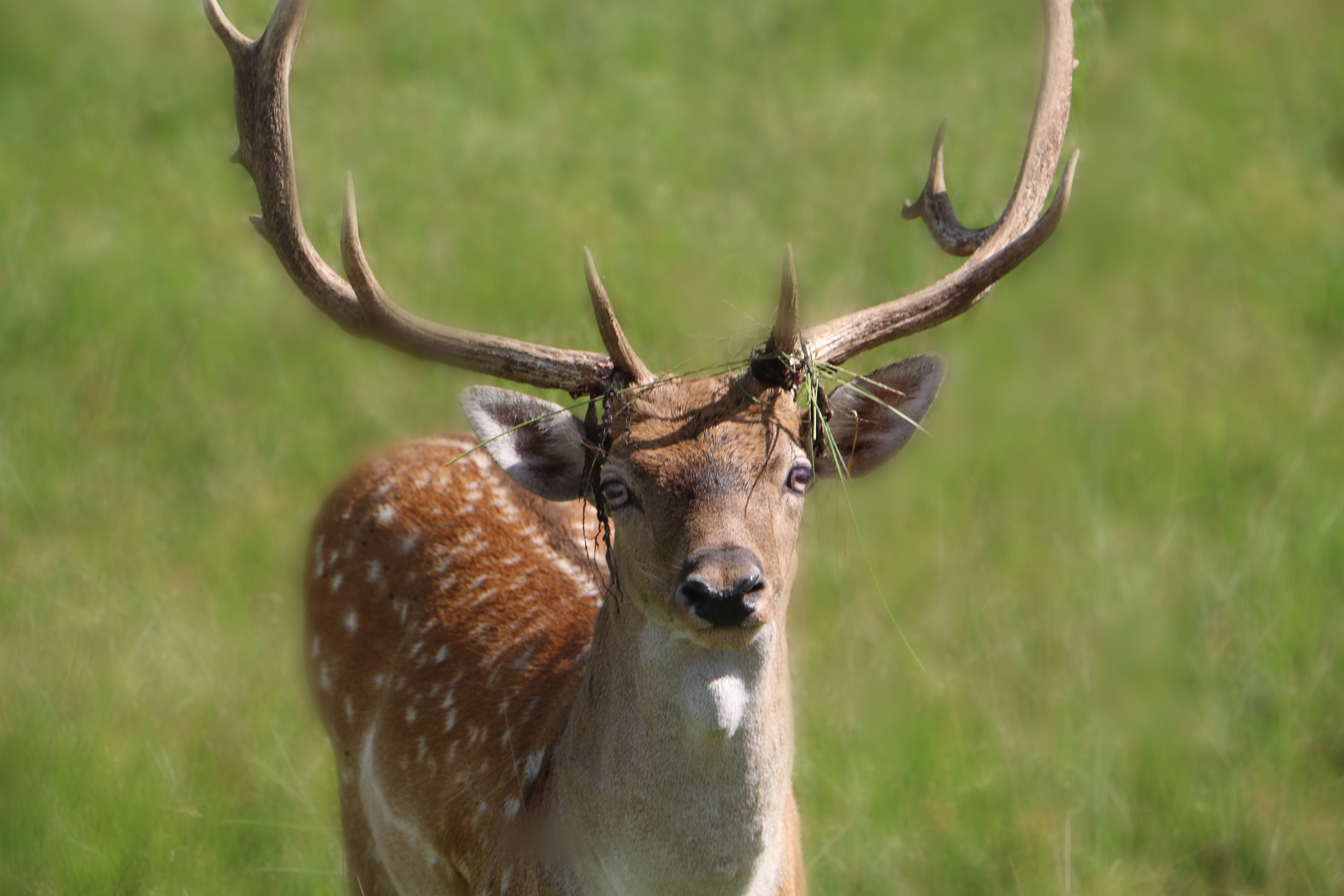 Mature Fallow deer Stag with antlers at Safari Wilderness Preserve in Lakeland, Florida